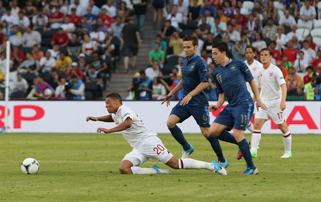 UEFA Euro 2012 match between France and England played in Donetsk at Donbas Arena. Final result was 1:1 (Nasri, Lescott).